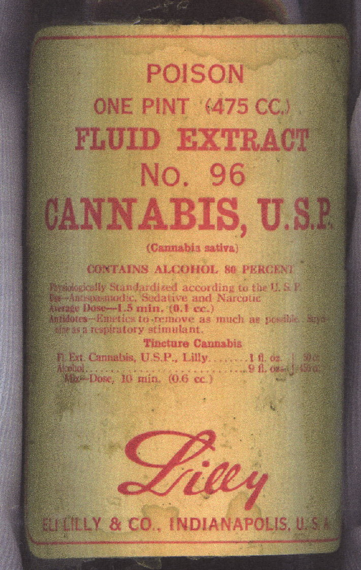 Label of an Eli Lilly Cannabis Fluid extract bottle